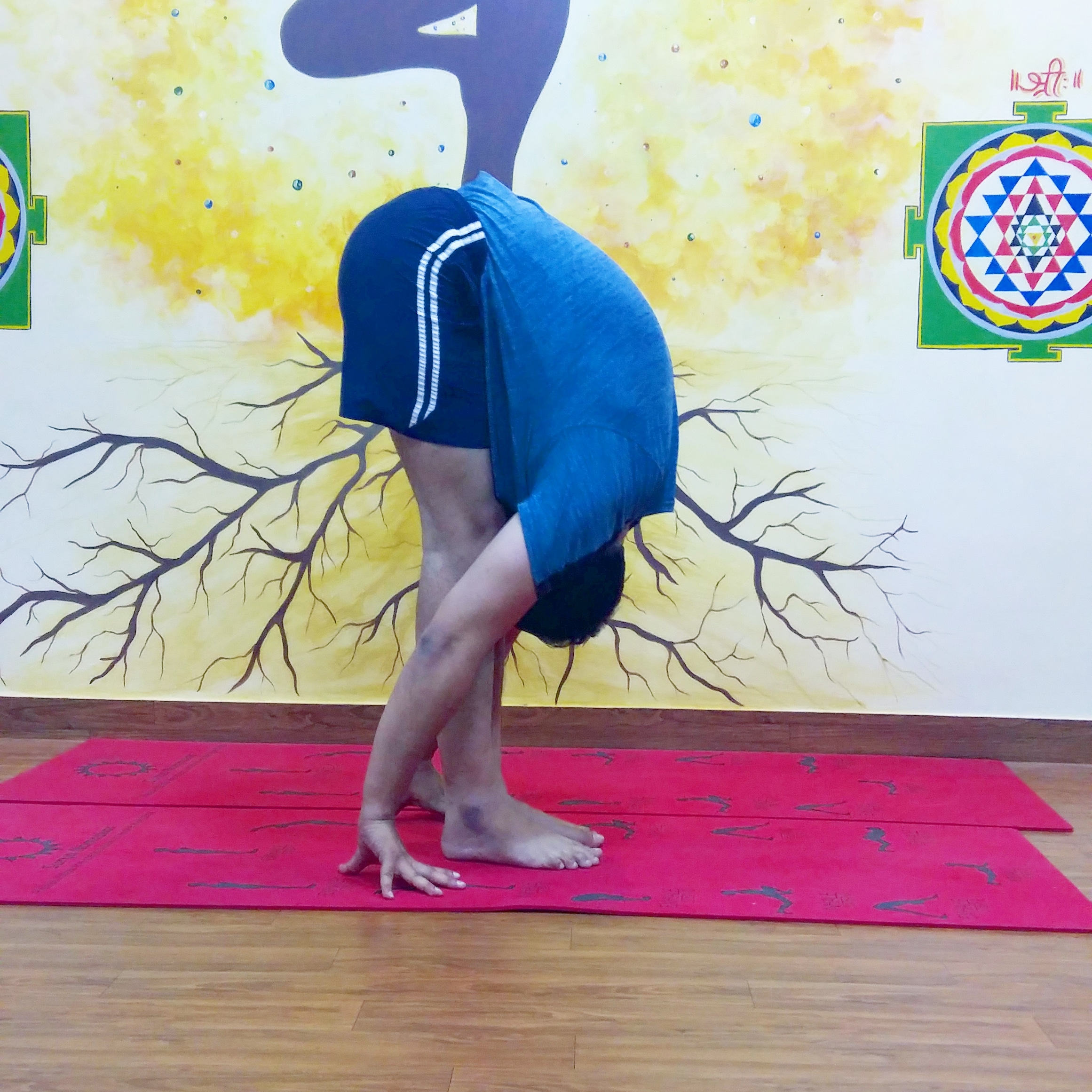 Uttanasana...Sadhak Anshit